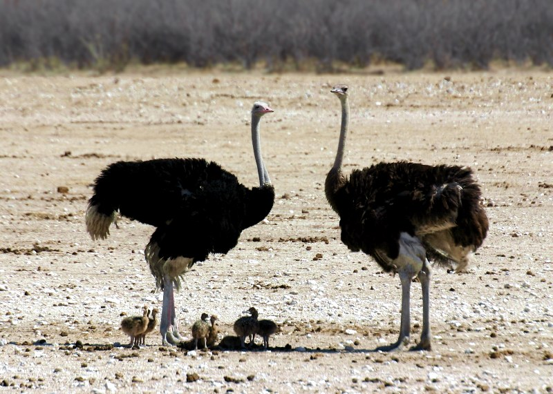 Ostriches with Babies